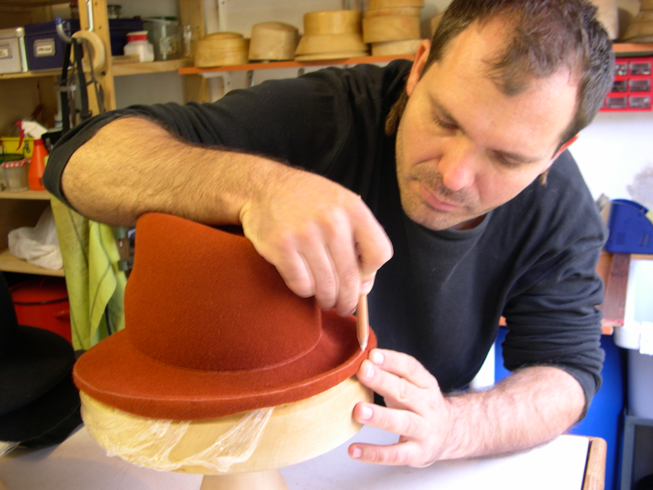 Hat-maker making a felt hat